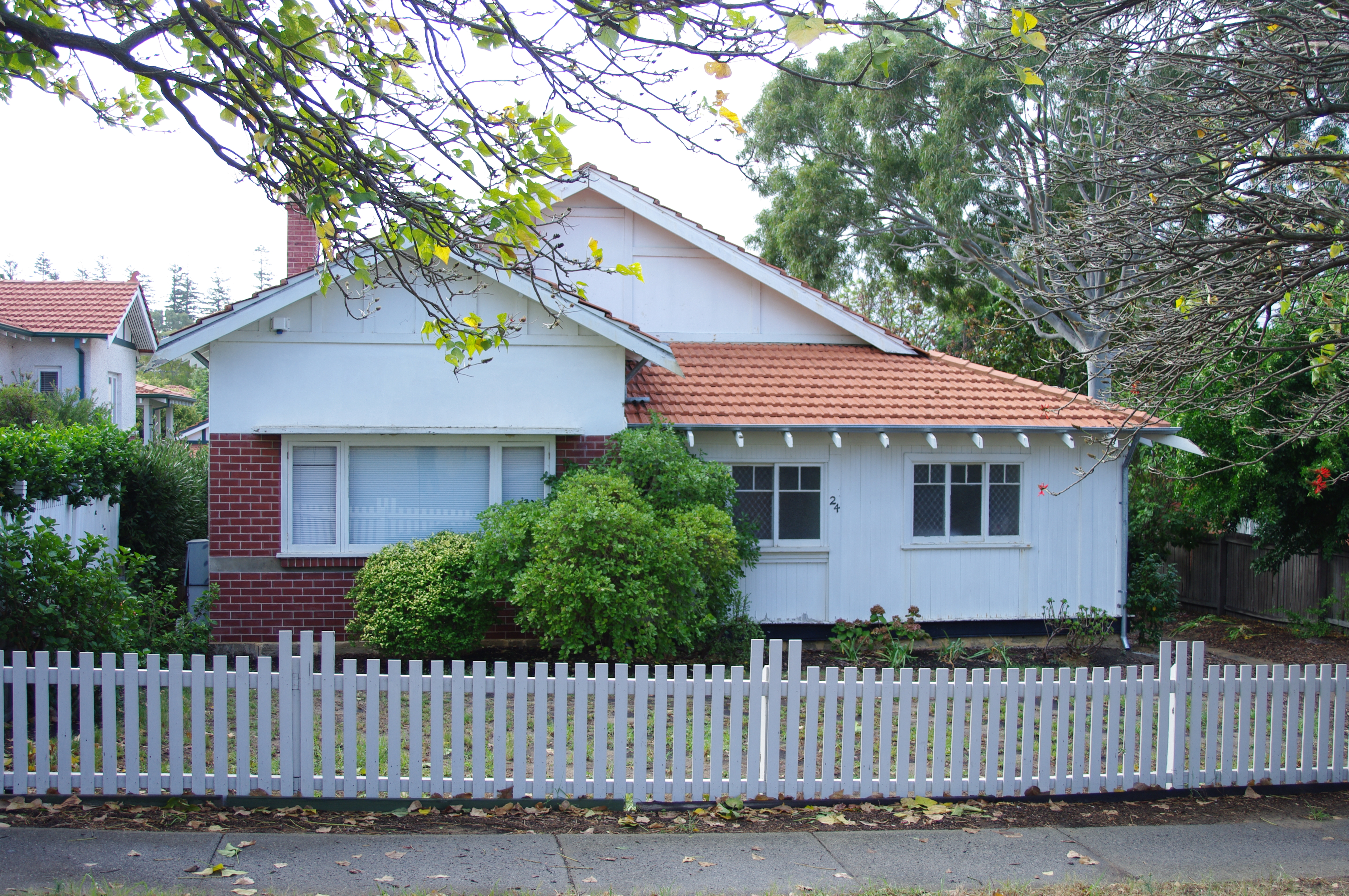 John Curtins house in Jarrad st Cottesloe